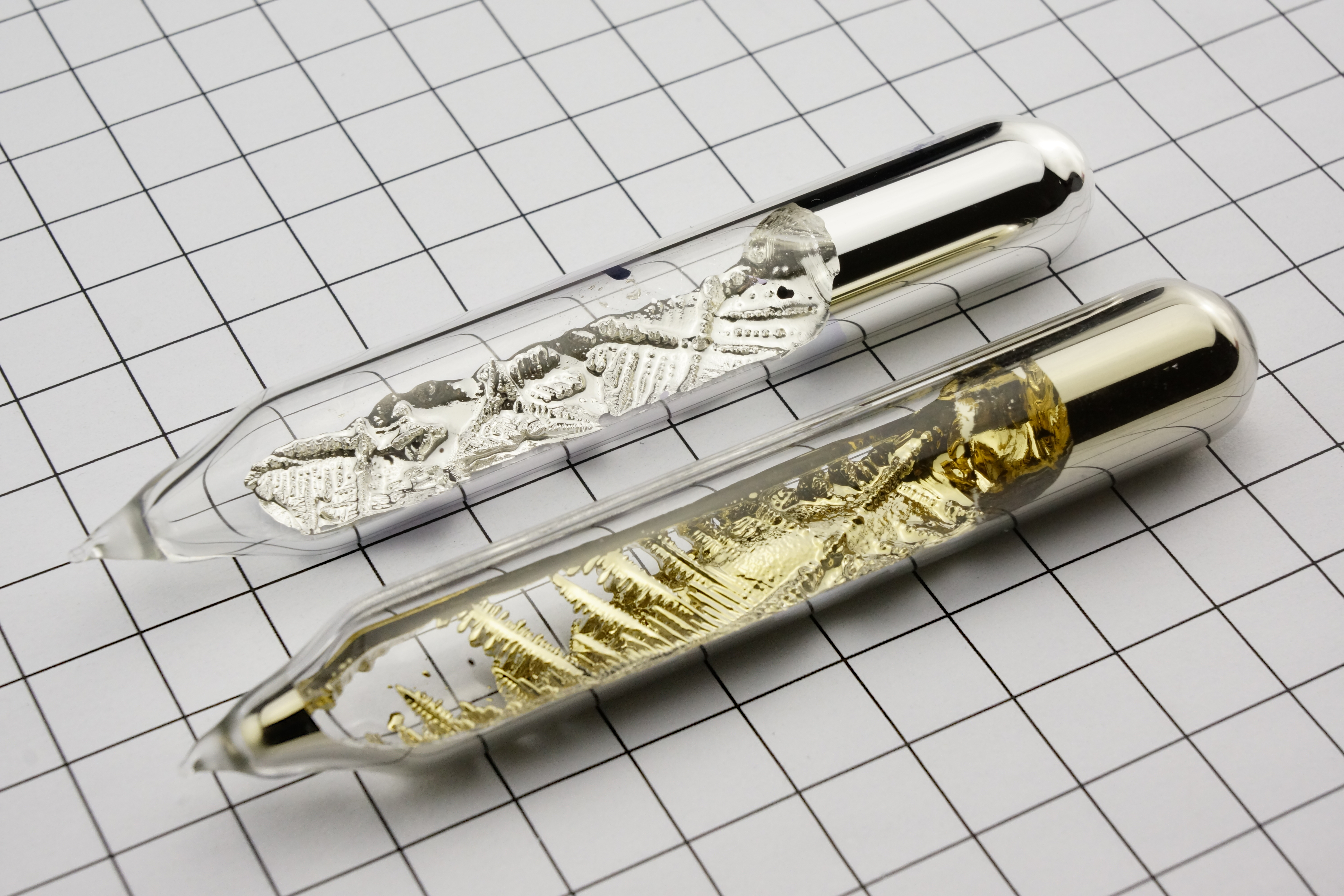 Rubidium and Cesium metal crystals sealed in vacuum ampoules, 5g, purity 99.75% and 99.8%